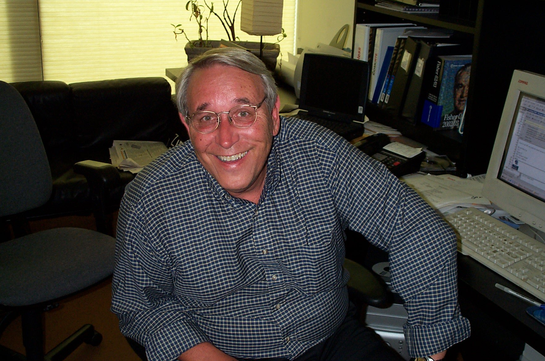 This is a photo of Bill Kovacs taken by Darryl Smith at the offices of REZN8 on 11-September-2002 Summary This is a photo of Bill Kovacs taken by Darryl Smith at the offices of REZN8 on 11-September-2002